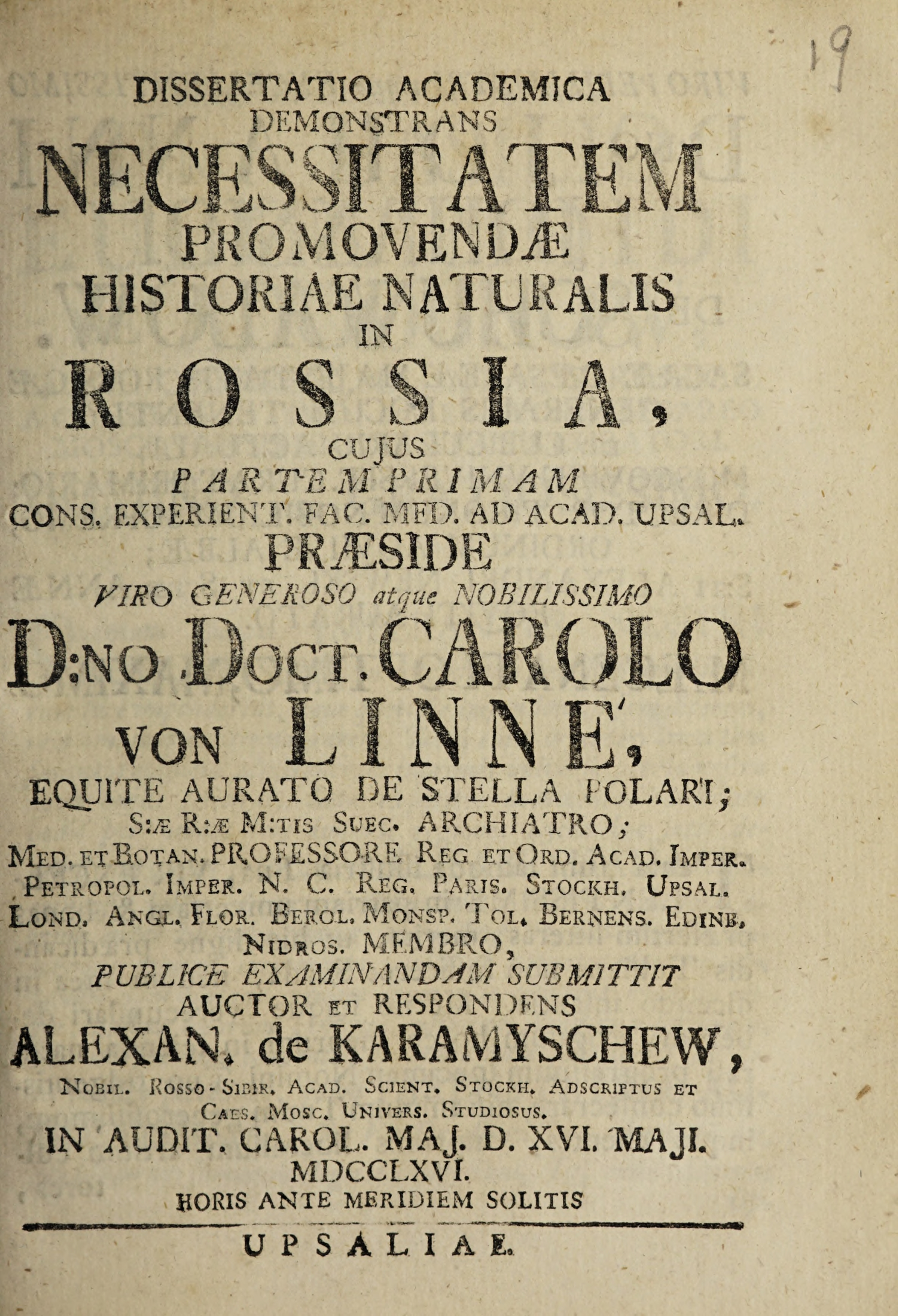 Title page